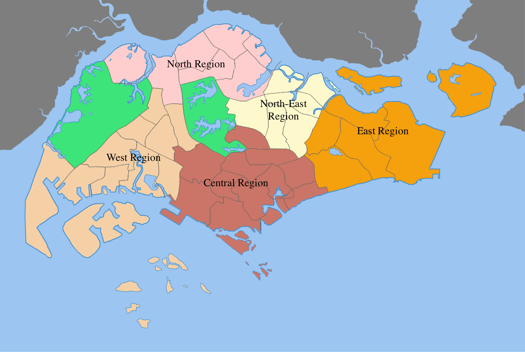 Regions of Singapore labelled on map, with the original map uploaded by User Vsion on en.wikipedia